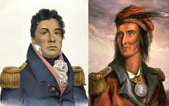 A collage of choctaw chief Pushmataha and Shawnee chief Tecumseh from public domain authors.